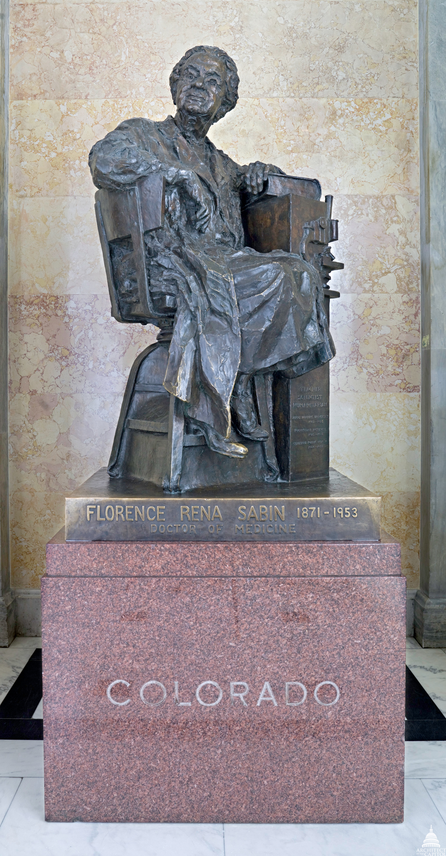 Florence R. Sabin (1871-1953) Colorado Bronze by Joy Buba Given in 1959 Hall of Columns U.S. Capitol This official Architect of the Capitol photograph is being made available for educational, scholarly, news or personal purposes (not advertising or any other commercial use). When any of these images is used the photographic credit line should read “Architect of the Capitol.” These images may not be used in any way that would imply endorsement by the Architect of the Capitol or the United States Congress of a product, service or point of view. For more information visit